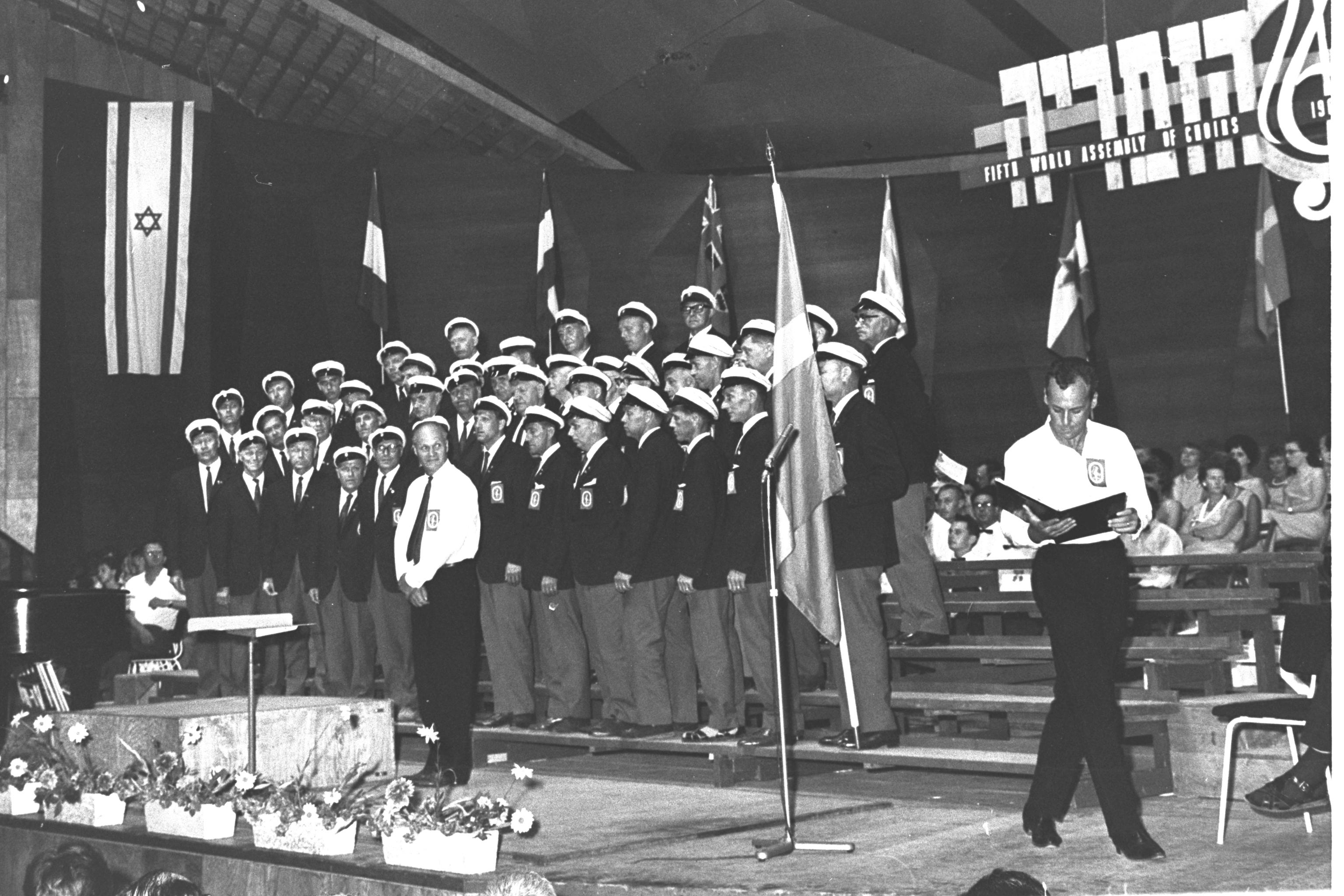 THE BUILDING WORKER'S CHOIR FROM STOCKHOLM (Byggnadsarbetarkören) TAKING PART IN THE 5TH WORLD ASSEMBLY OF CHOIRS - ZIMRIA WHICH OPENED AT THE MANN AUDITORIUM IN TEL AVIV.